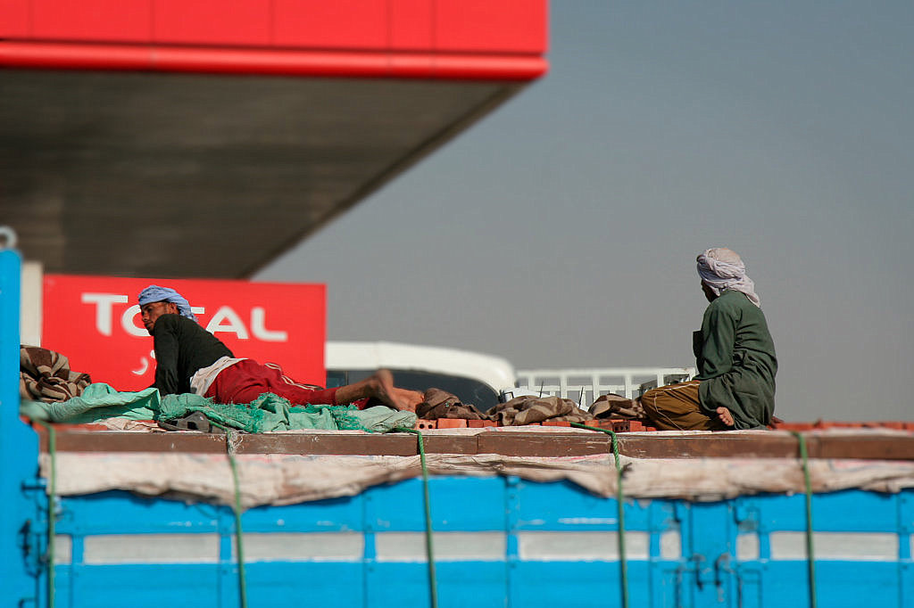 Bedouins in Egypt